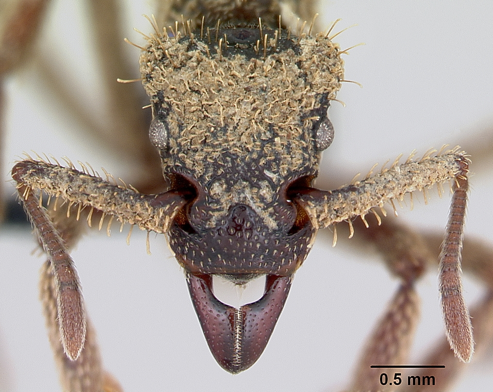 Head view of ant Basiceros manni specimen casent0052769.